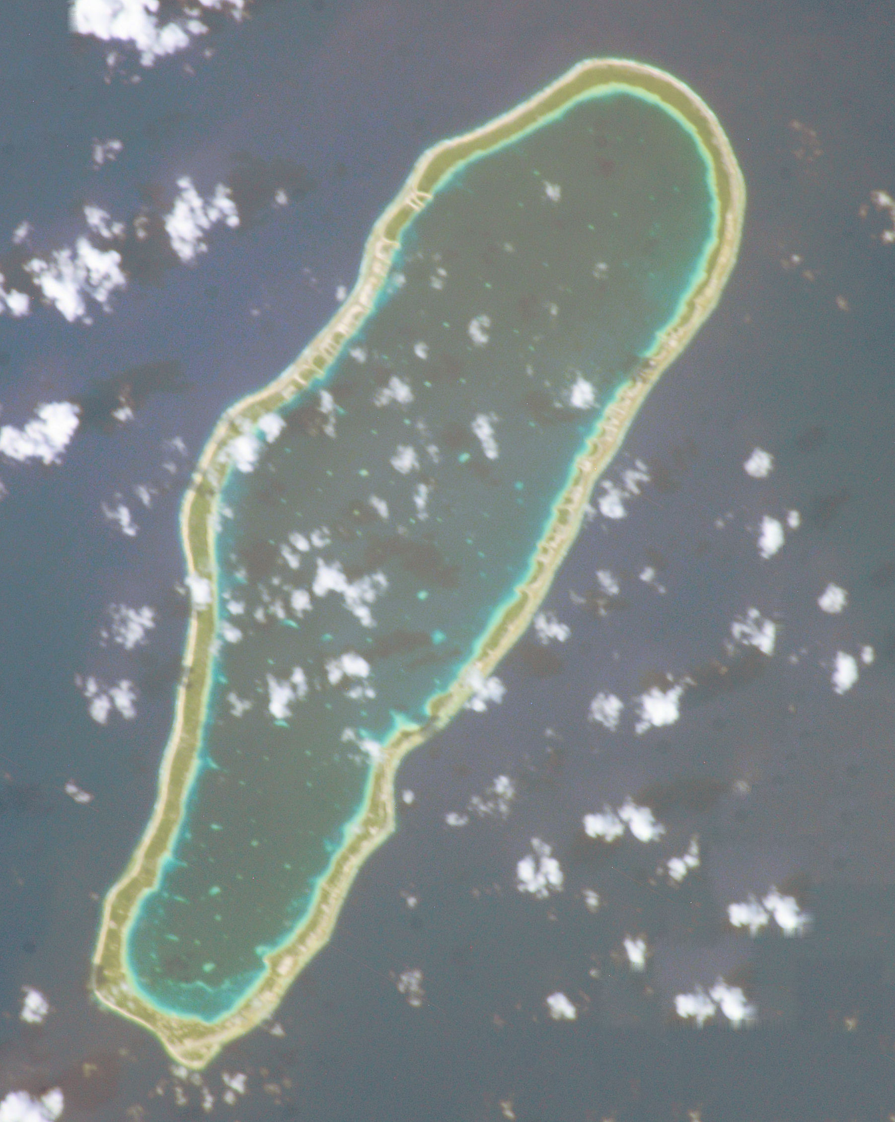 Atoll Takapoto (Tuamotu Archipelago, French Polynesia), from space.